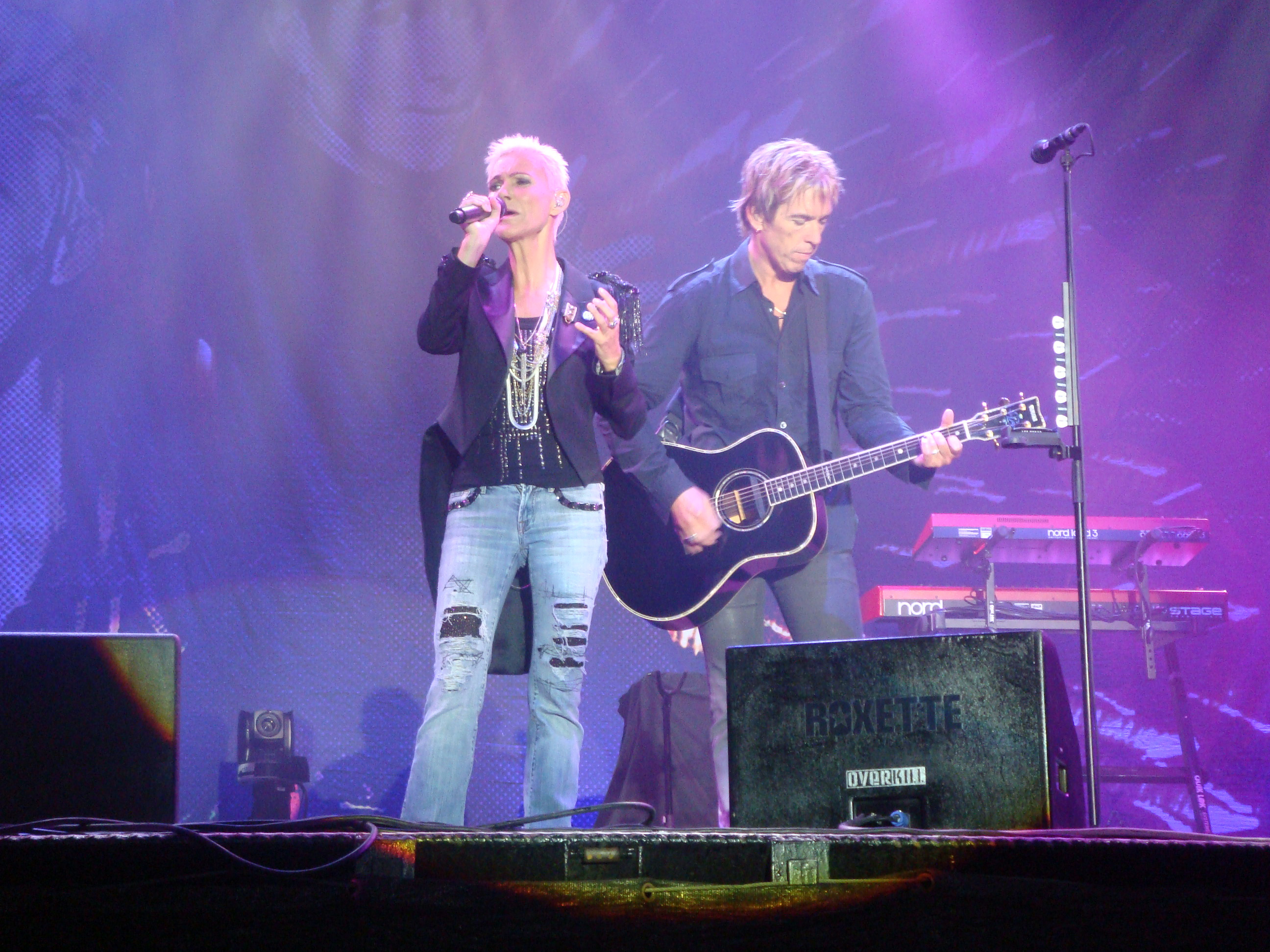 Swedish pop-rock duo Roxette at live concert in Halmstad, Halland, Sweden